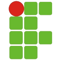 IFSP logo